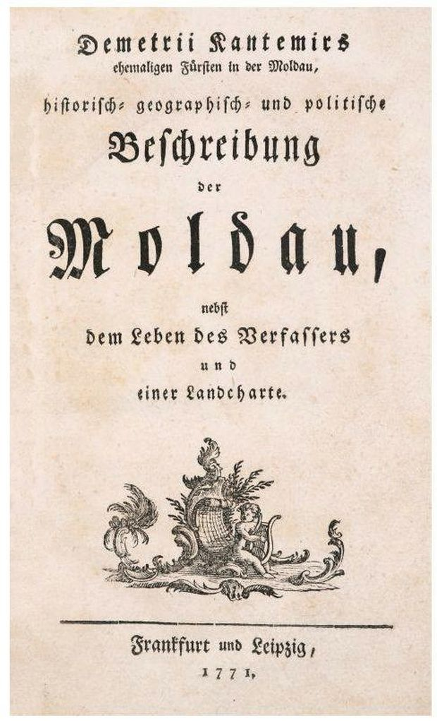 Descriptio Moldaviae, 1771